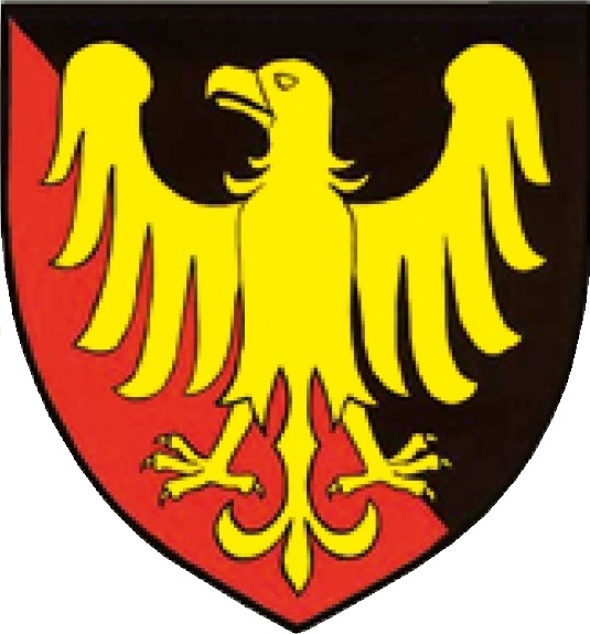 Coat of arms of Artstetten-Pöbring, Lower Austria